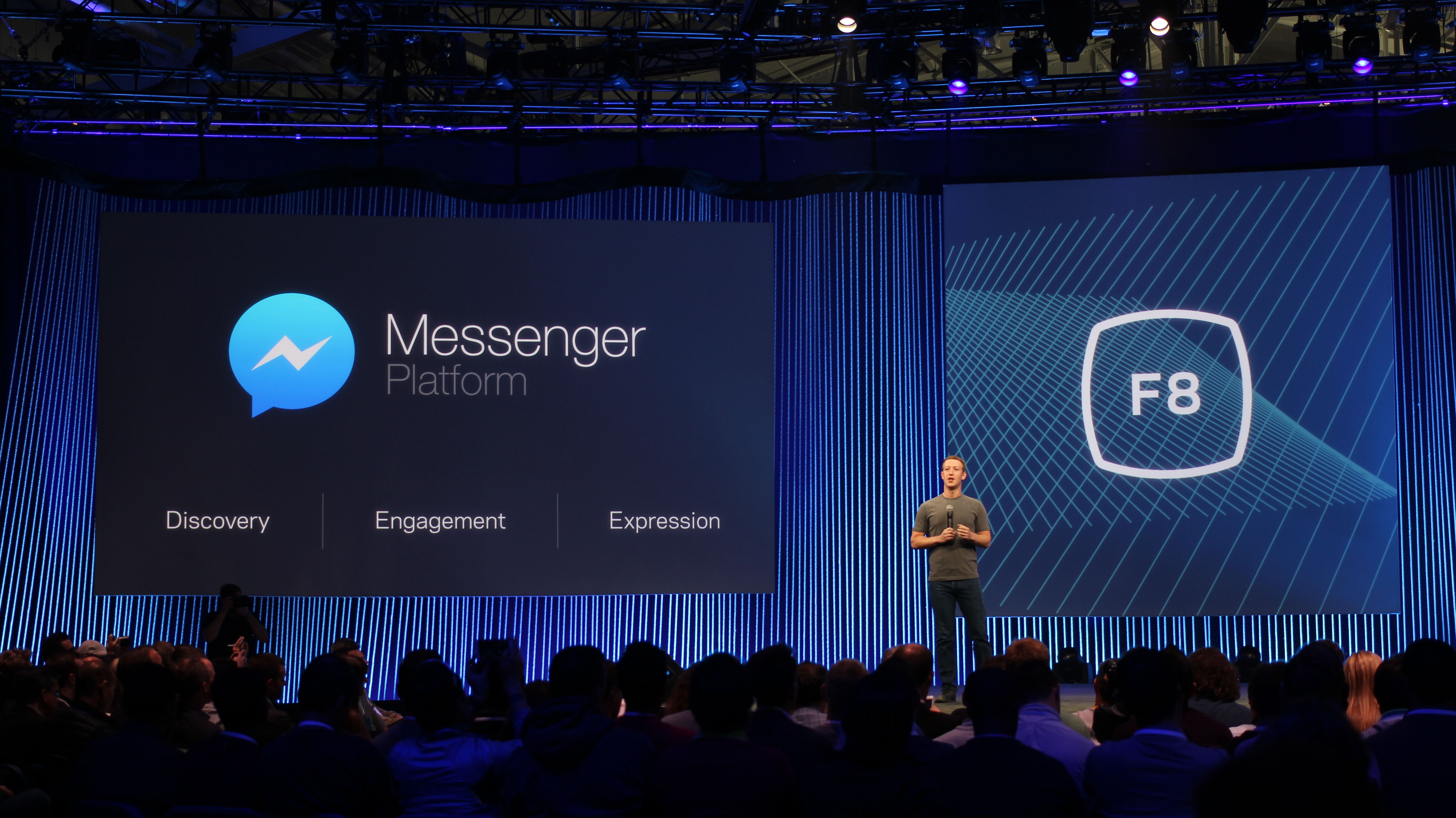 Introducing Messenger Platform